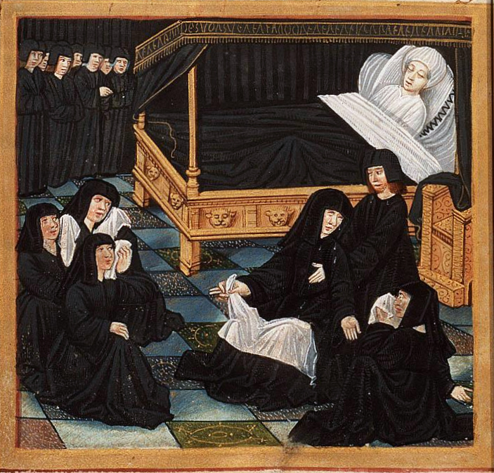 The deathbed of Philippes de Commines Contents: Le séjour de deuil pour la mort de Philippe de Commines Place of origin, date: France; 1512 Material: Vellum, ff. 24, 260x175 (185x110) mm, 31 lines, littera cursiva (lettre bourguignonne), Binding: 18th-century brown leather; gilt on spine Decoration: 17 miniatures (125/105x110 mm); decorated initials (ff. 2r, 3v, 4v, 5r, 6r, etc.) Provenance: dedicated by the author to H‚lène de Chambes, widow of Philippe de Commines (1447-1511). Anne de Bavière, Princesse Palatine at the Castle of Anet; purchased in 1724 at the sale of this library at P. Gandouin at Paris (15 Nov) by Cardinal G. Du Bois; sale of G. Du Boisand J.P. Bignon in 1725 at J. Swart & P. de Hondt, The Hague (cat. 27 Aug., pt. 1, p. 545 no. 5418). J.H. van Wassenaer-van Obdam; his sale in 1750 at P. de Hondt, The Hague (cat. 10 Aug., p. 62 no. 793). Purchased in 1816 at the sale of the collection of J.Th. Royer of The Hague (d.1807; signature with motto `Constanter') at B. Scheurleer & A. Bakhuyzen, The Hague (cat. 1-6 Apr., p. 63 no. 785) by the KB